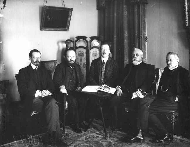 First State Duma (Russian Empire), deputies, 1906; Выборгский процесс. Иллюстрированное издание. СПб.: Типогр. т-ва "Общественная польза". 1908. Вклейка между с. 32. и с. 33. .